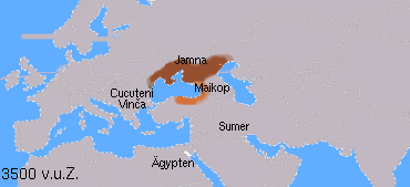 Original is part of the series 5500, 4500, 3500, 2500, 1500, 0500 BP; goto Image_talk:IE5500BP.png.